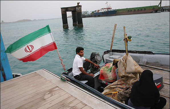 Abu Musa port